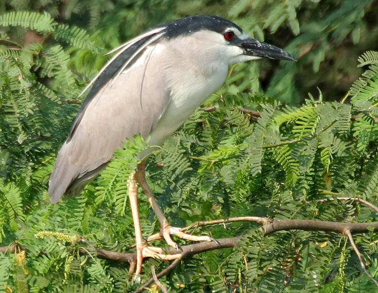 Black-crowned Night Heron Nycticorax nycticorax at Uppalapadu, Andhra Pradesh, India.